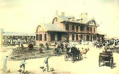 Shanghai North Railway Station in the Qing Dynasty Žemaitėška: 老上海北火车站(清代)